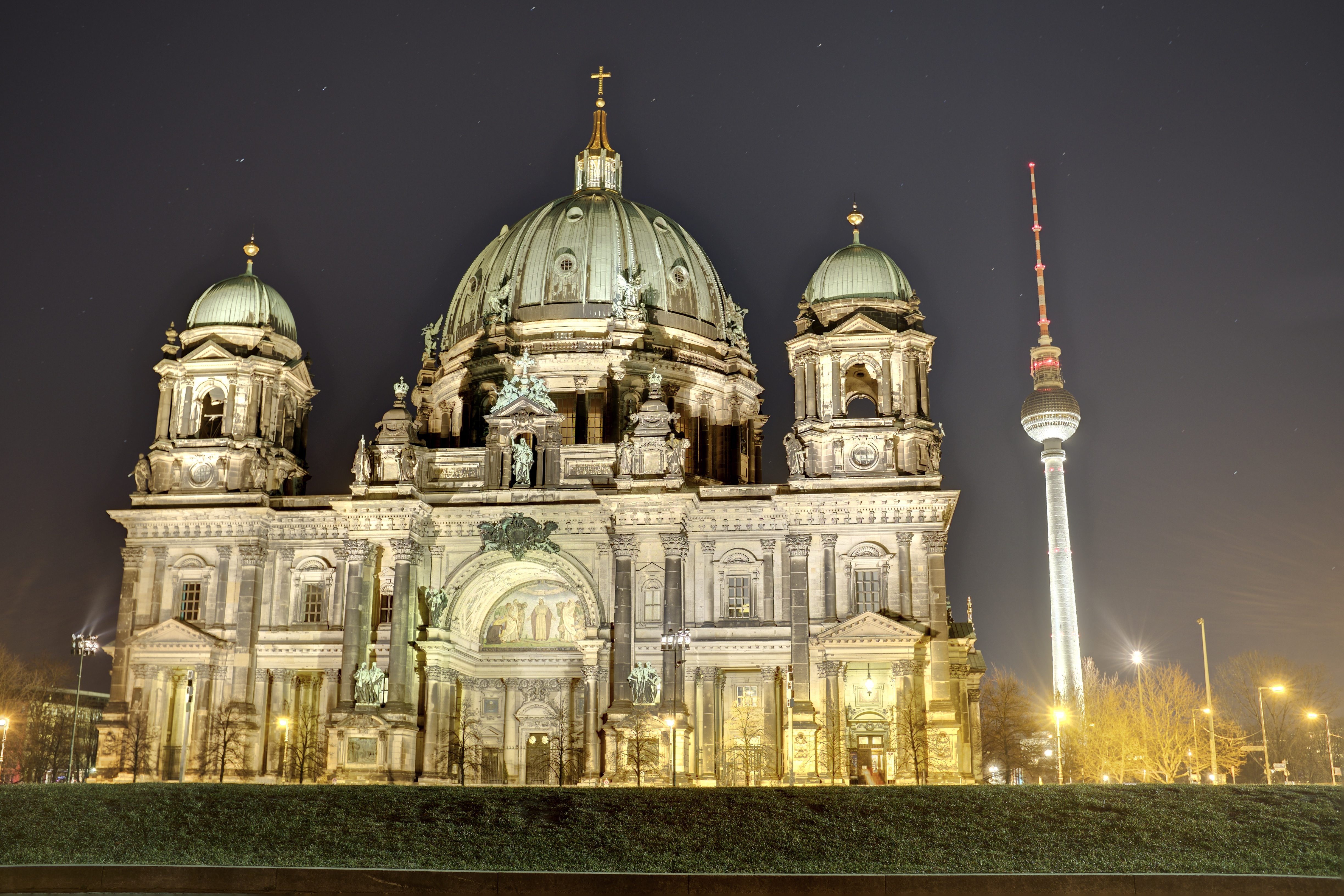 Edited: Removed Crane part in upper right